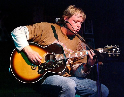 Pat Green at the Maverick Saloon in Santa Ynez, California.